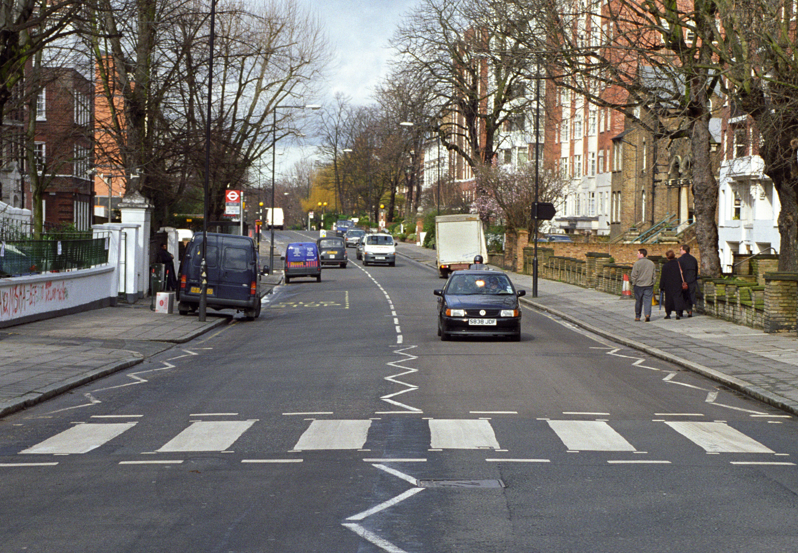 Abbey Road, London